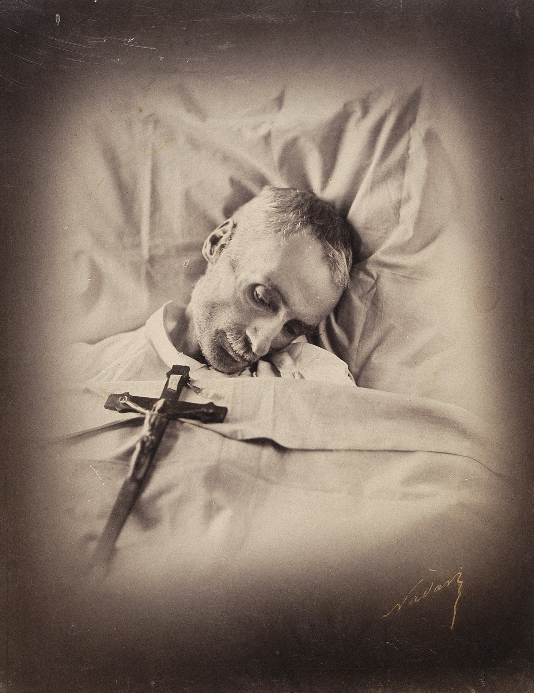 Posthumous portrait of Zygmunt Krasiński.